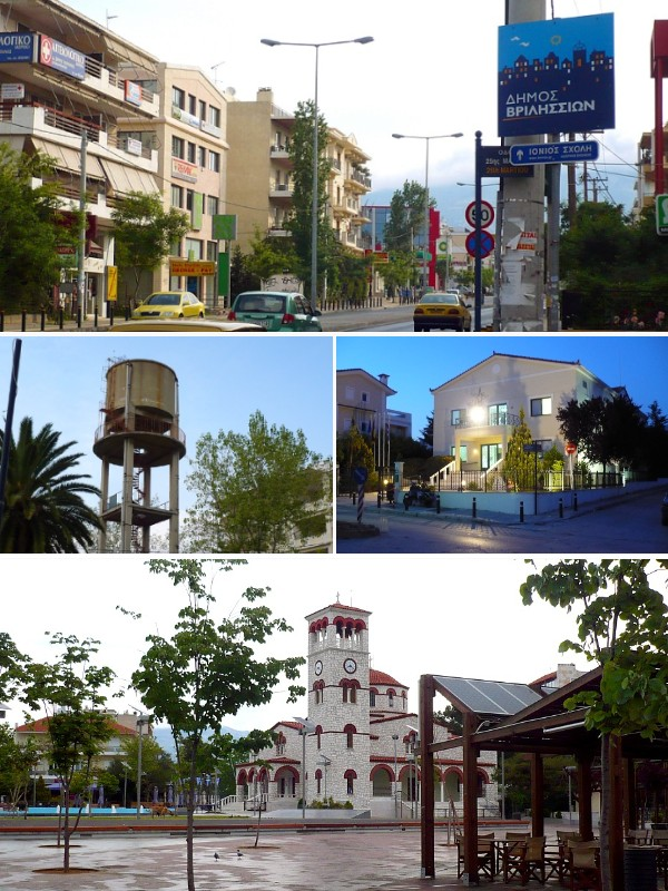 a collage of pictures taken from the city of Vrilissia